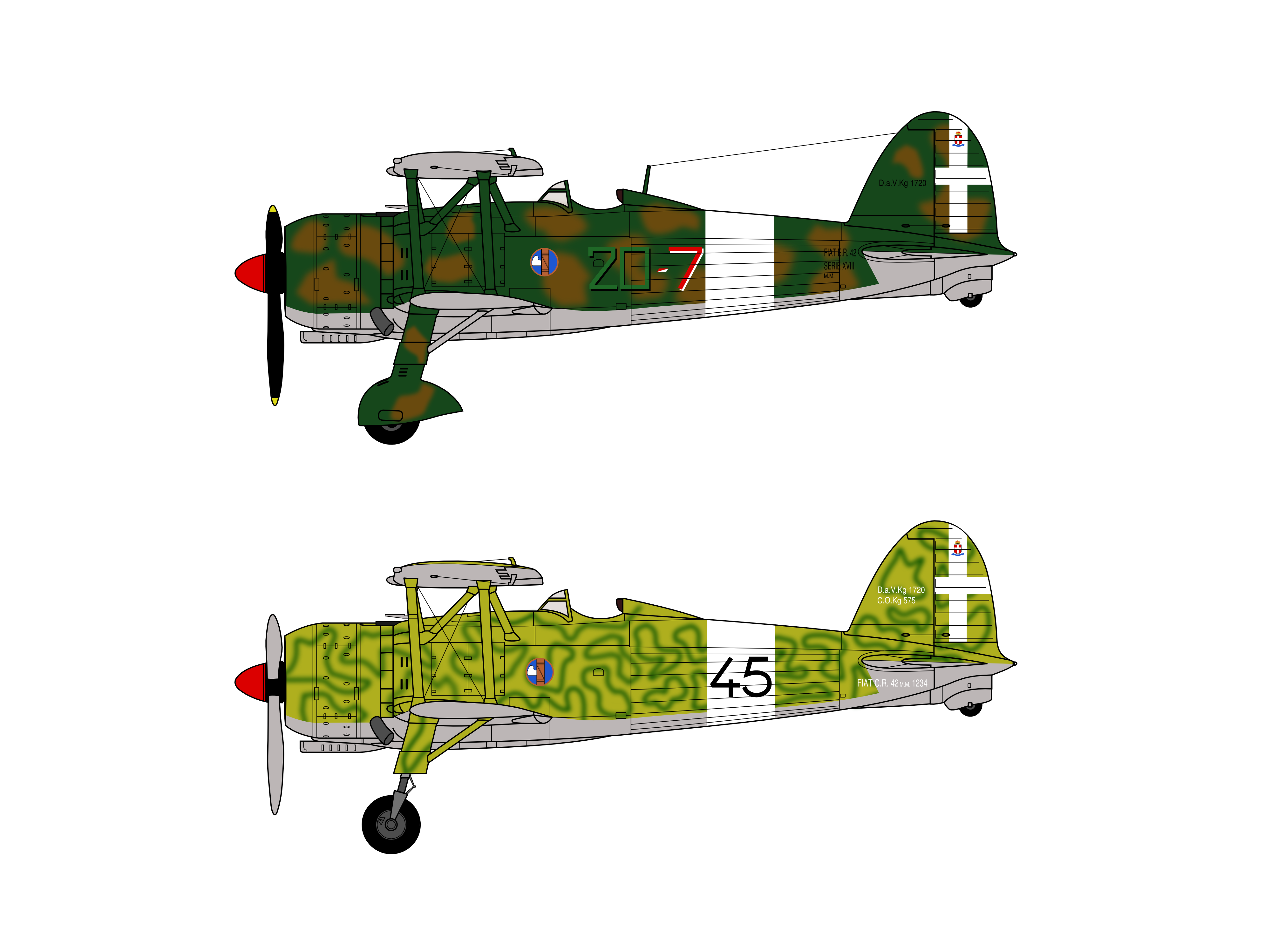 Two profiles of Italian World War II fighter biplane Fiat C.R.42 Falco. Top: A Fiat C.R.42 of Regia Aeronautica's 20th Squadron (20a Squadriglia), 46th Group (46o Gruppo) 15th Wing (15o Stormo Assalto), based in El Adem in 1942. Bottom: A Fiat C.R.42 of Regia Aeronautica's Fighter-Attack School, based in Ravenna in 1942.